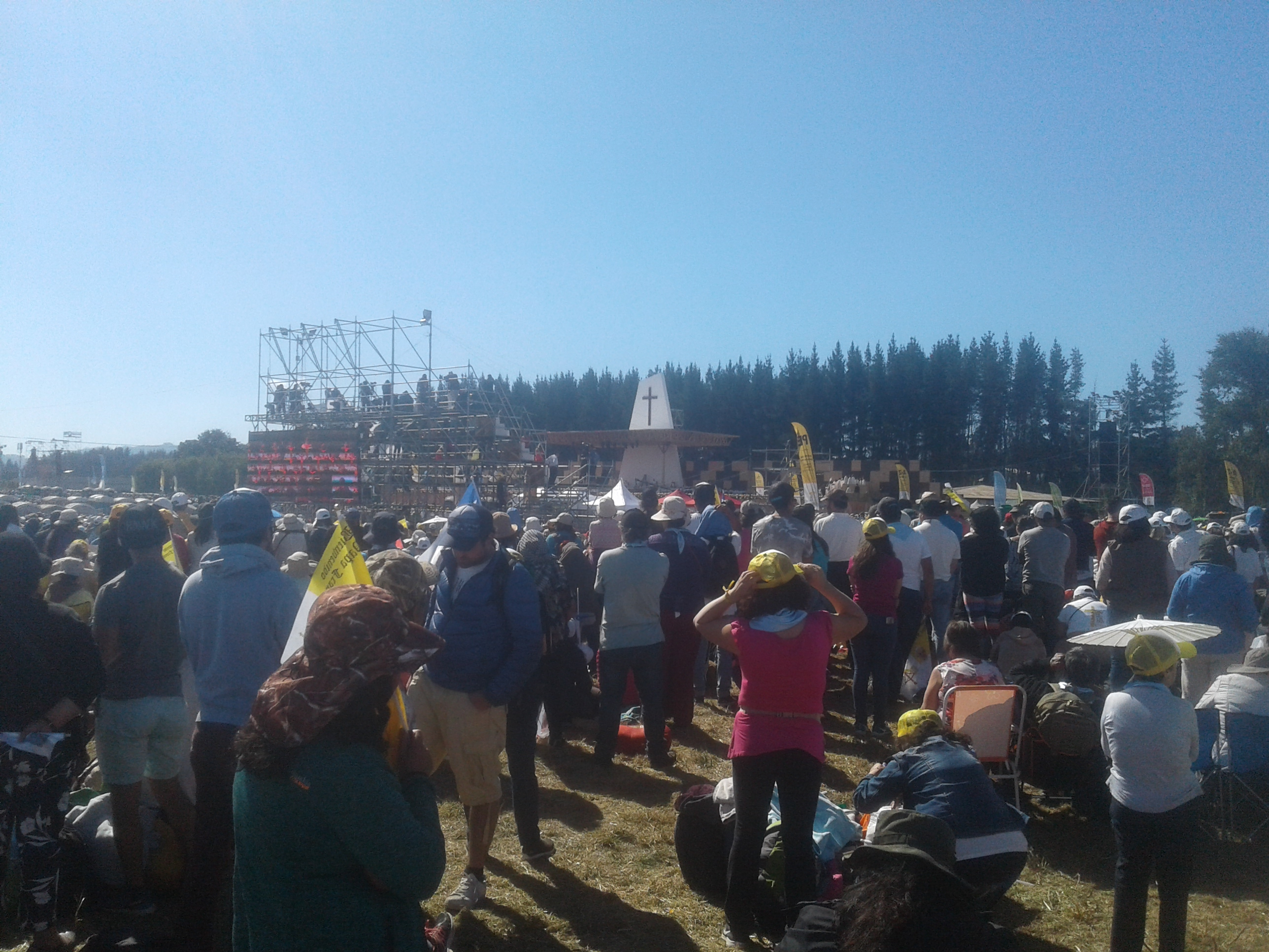 Pope Francis Mass in Temuco, Chile, 17 January 2018.